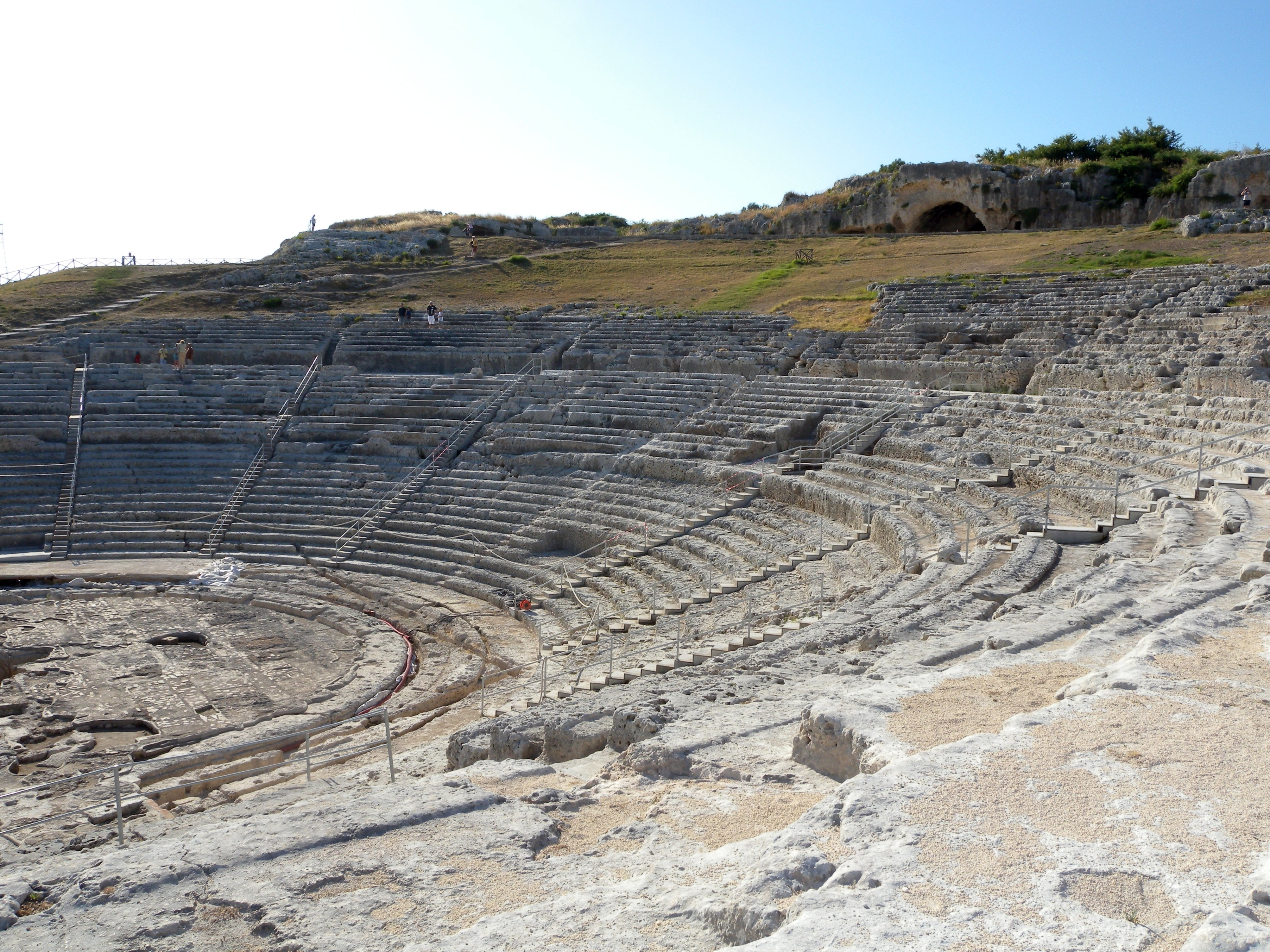 Syracuse, Sicily